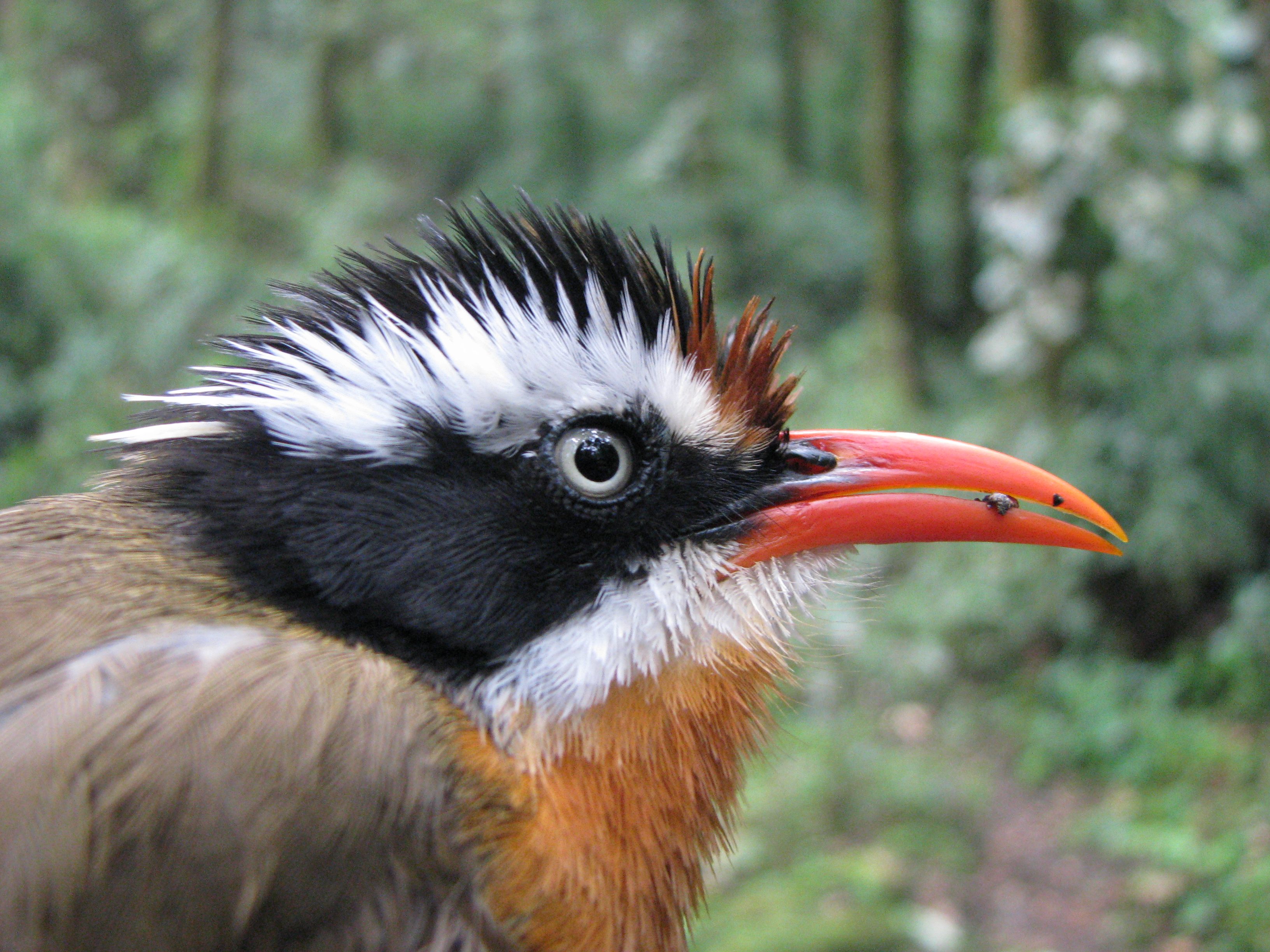 A Coral-billed Scimitar Babbler. This bird was netted and ringed in Eaglenest Wildlife Sanctuary, Arunachal Pradesh, India.